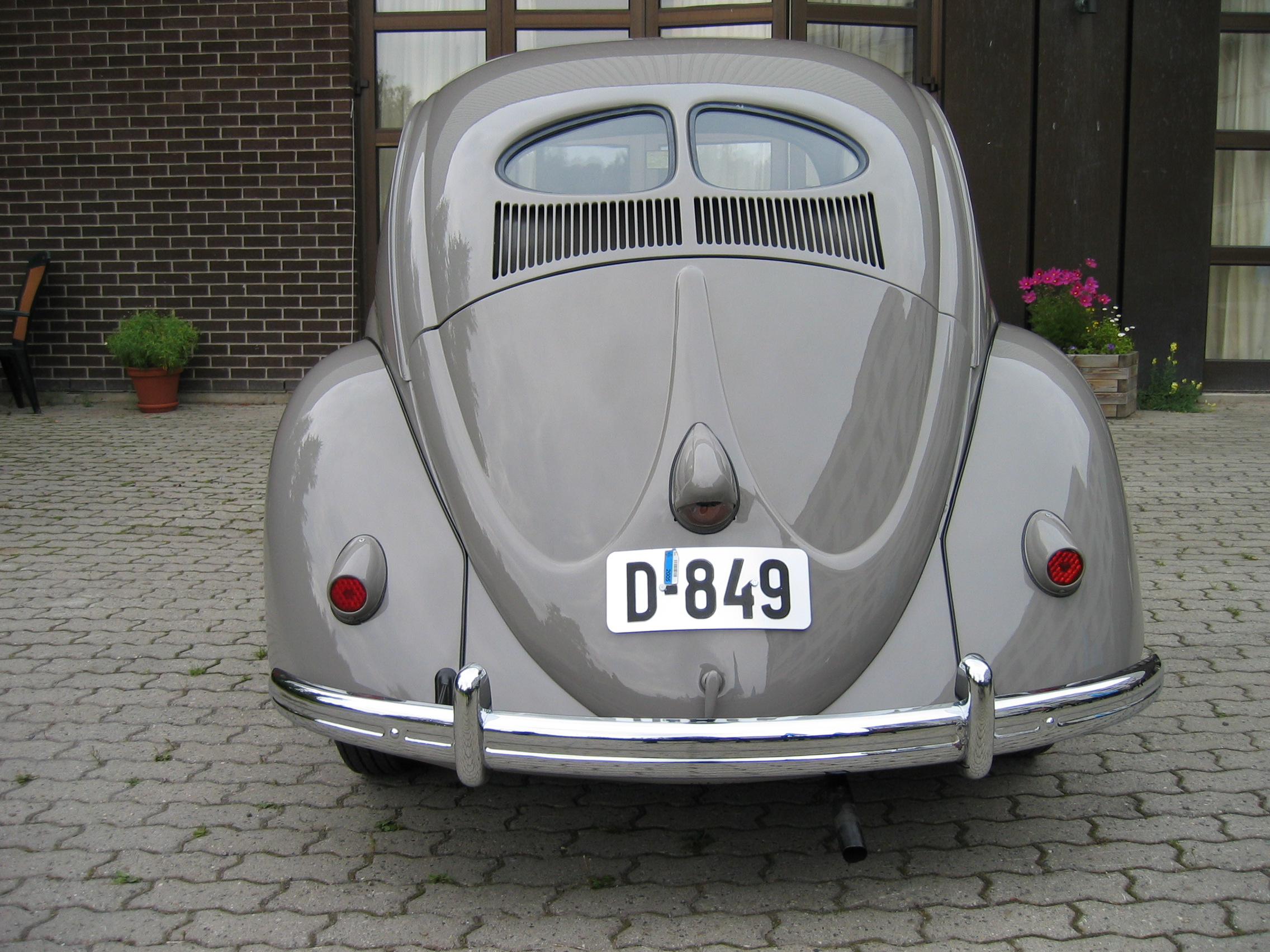 1949 Volkswagen Type 1, rear